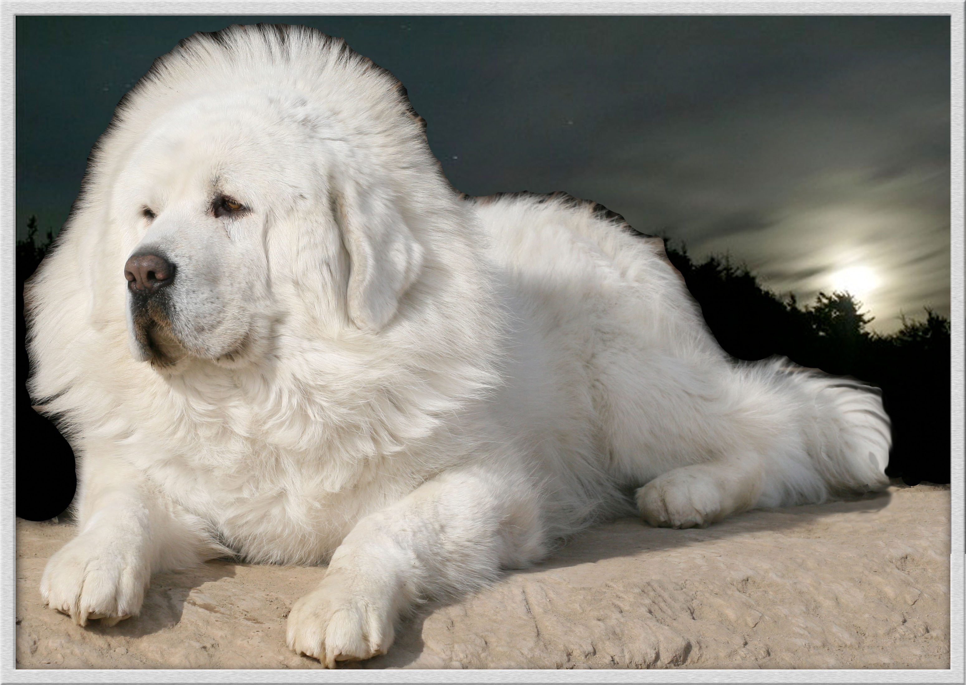 An extremely rare white Tibetan Mastiff - also known as a 'Snow Lion'.